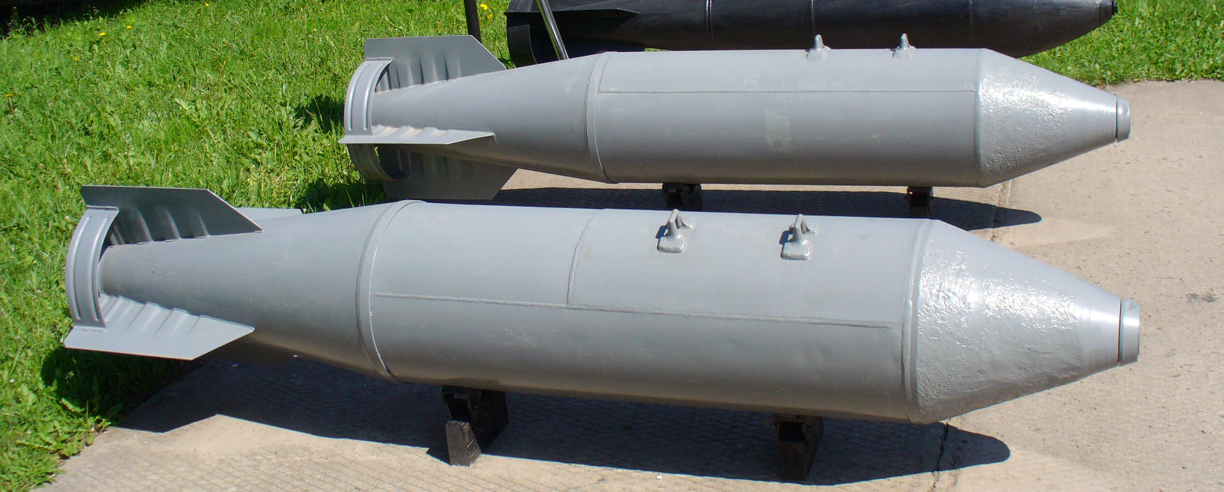 Air-dropped bombs AgitAB-500-300, USSR. This bomb developed for scatter agitation flyers in enemy territory. Museum of Air Forces in Ukraine.